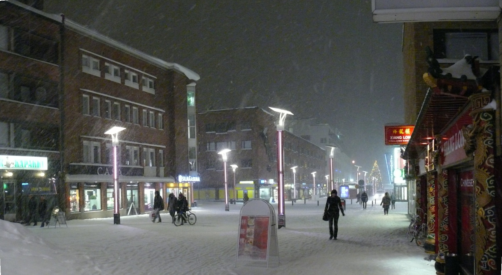 Rovaniemi. Koskikatu.